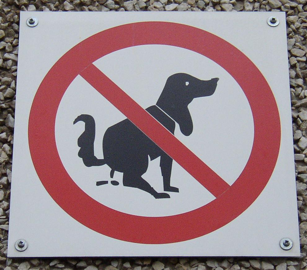 Prohibition sign in Berlin-Pankow, Germany